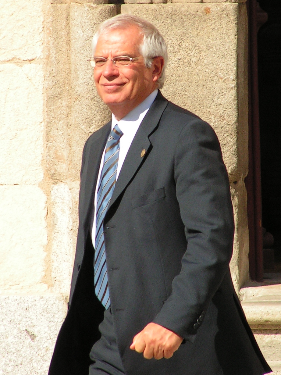 Josep Borrell, former President of the European Parliament, in Salamanca, Castilla y León, 2005-10-14. Cropped from original.